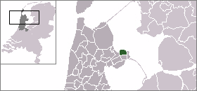 Location of Andijk